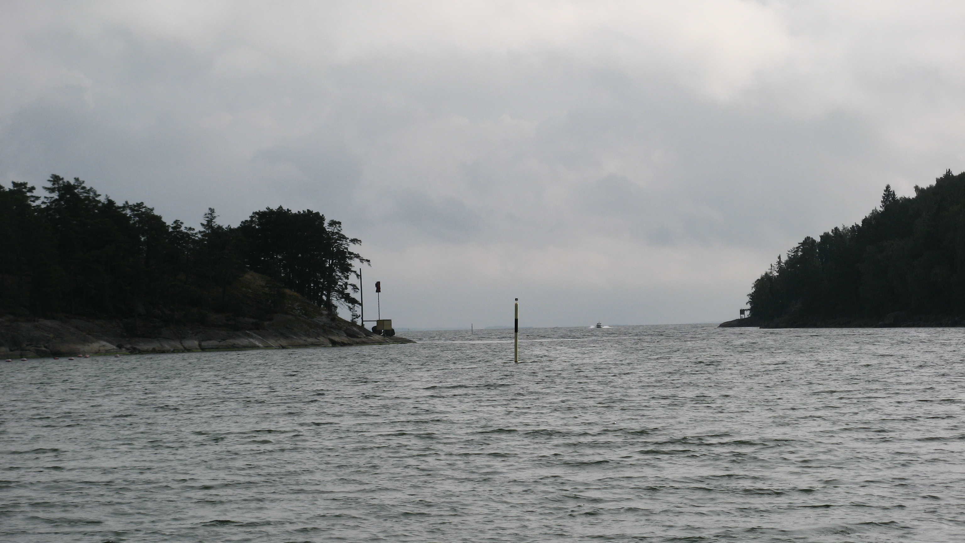 Pargas port (“Gate of Pargas”): the outer archipelago opens up..